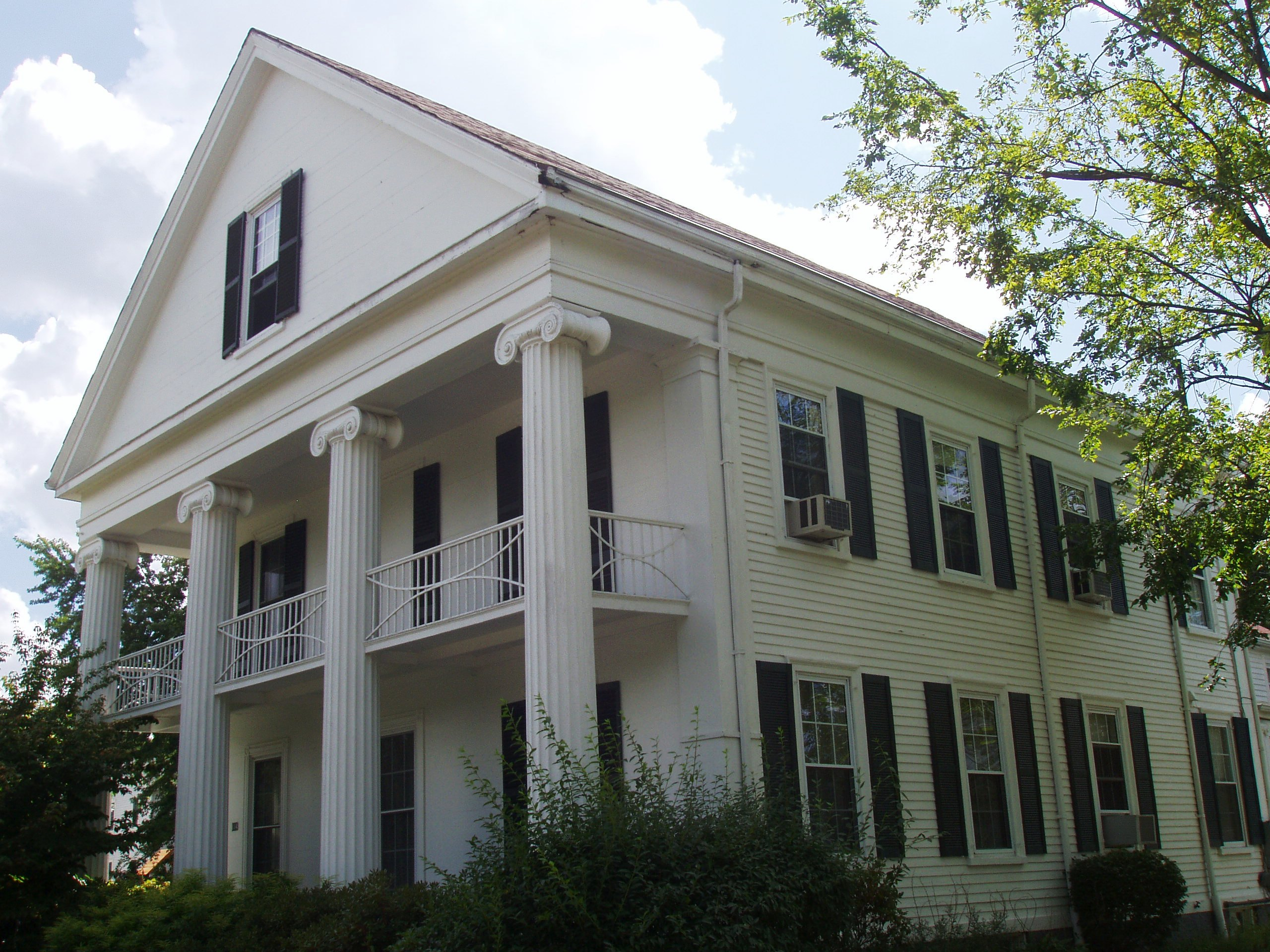 "Grandfather's House", Medford, Massachusetts. So called from the poem "Over the River and Through the Woods", by Lydia Maria Child (1802-1880), which showcased this very house. Listed on the National Register of Historic Places as the Paul Curtis House. Photograph taken by me, September 2005.